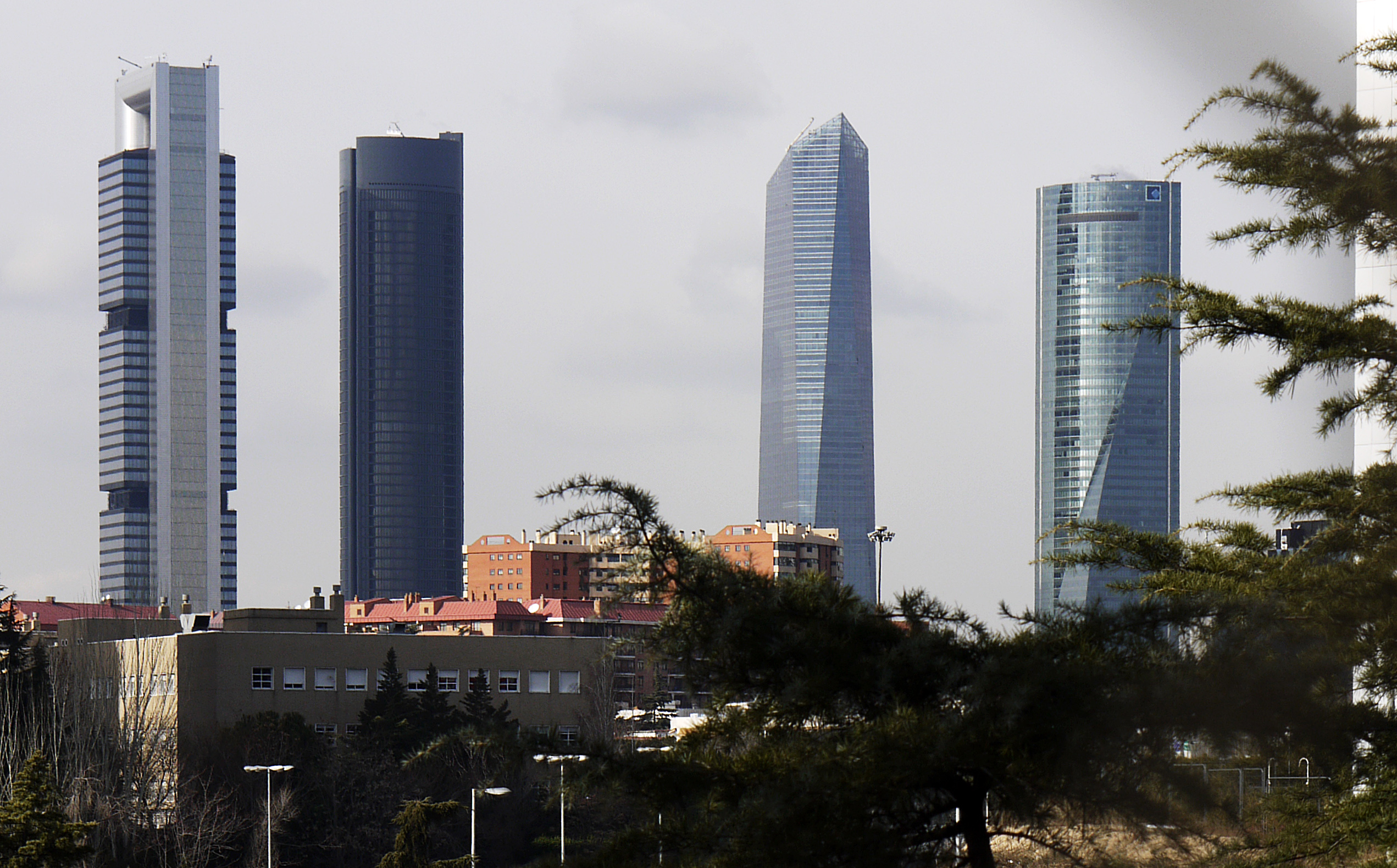 Madrid Cuatro Torres Business Area, seen from Sagrado Corazón Cta., cc M30, Madrid, Spain